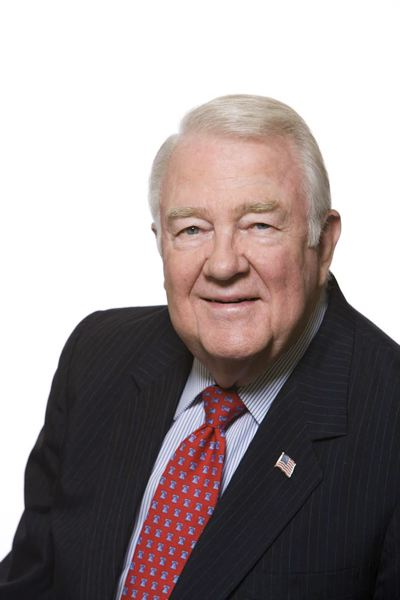 Official photograph of Heritage Foundation Ronald Reagan Distinguished Fellow in Public Policy Edwin Meese